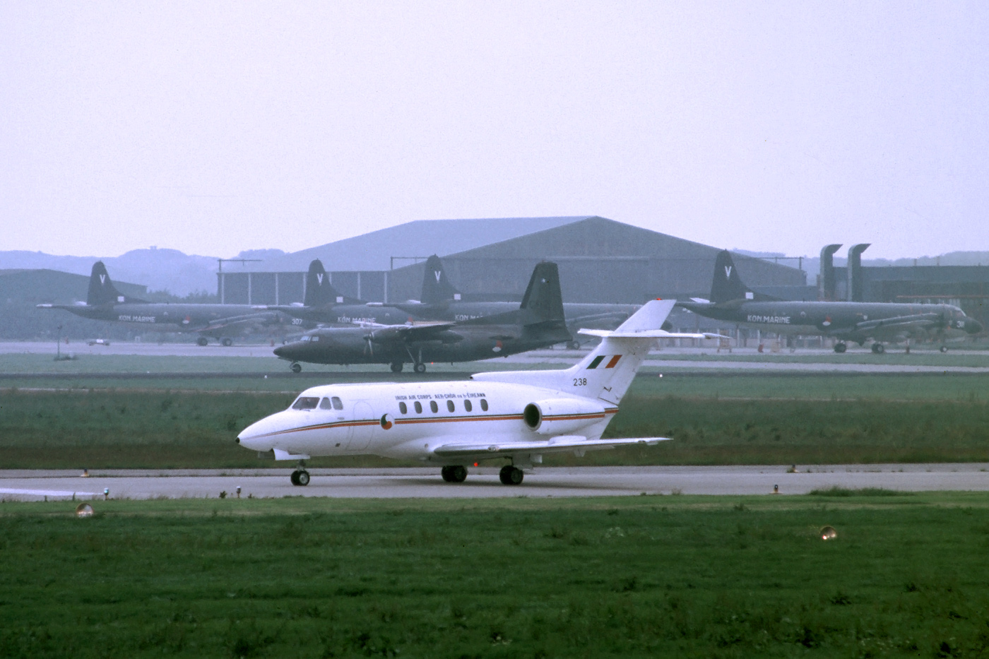 Valkenburg, 24 June 1986. HS.125-700B 238 was delivered in 1980 and sold in 1992, if the information on the web is correct. It was the only visit of 238 to Valkenburg, so I was lucky to see it, despite the murky June weather. As you can see it was a busy place! ;) The photo was taken from a tree. We, the local spotters, had converted a tree into a crow's nest.